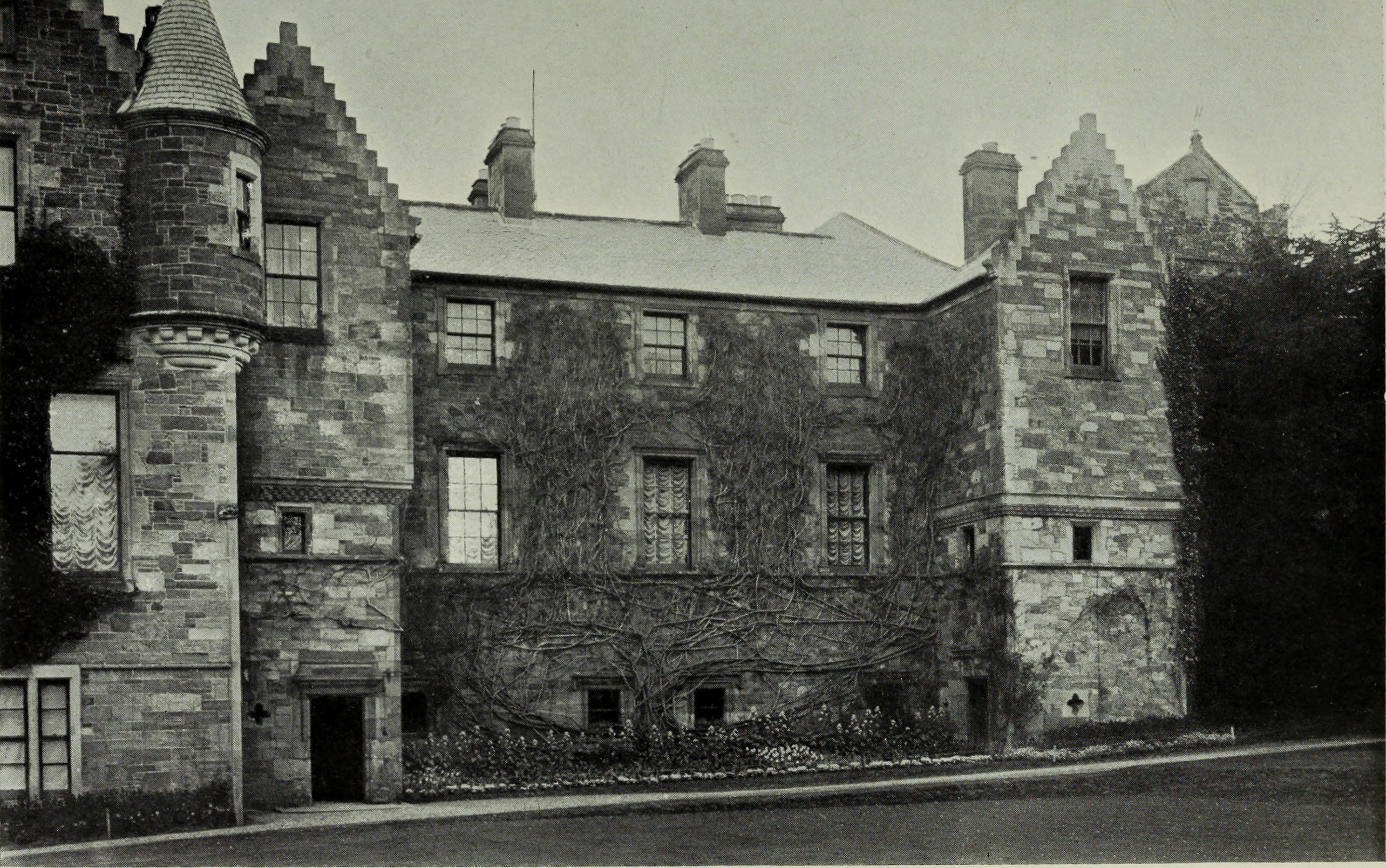 Title: Sixth report and inventory of monuments and constructions in the county of Berwick Year: 1915 (1910s) Authors: Scotland. Royal Commission on the Ancient and Historical Monuments and Constructions Subjects: Publisher: Edinburgh : H.M. Stationery Off. Text Appearing Before Image: MOTO wing. ^ $$$ms$^-M^M. Fio. 67.— Cowdenknowes (No. 127). Ancient and Historical Monuments—County of Berwick. ~0 Text Appearing After Image: To face p. 70. Ancient and Historical Monuments—County of Berwick.